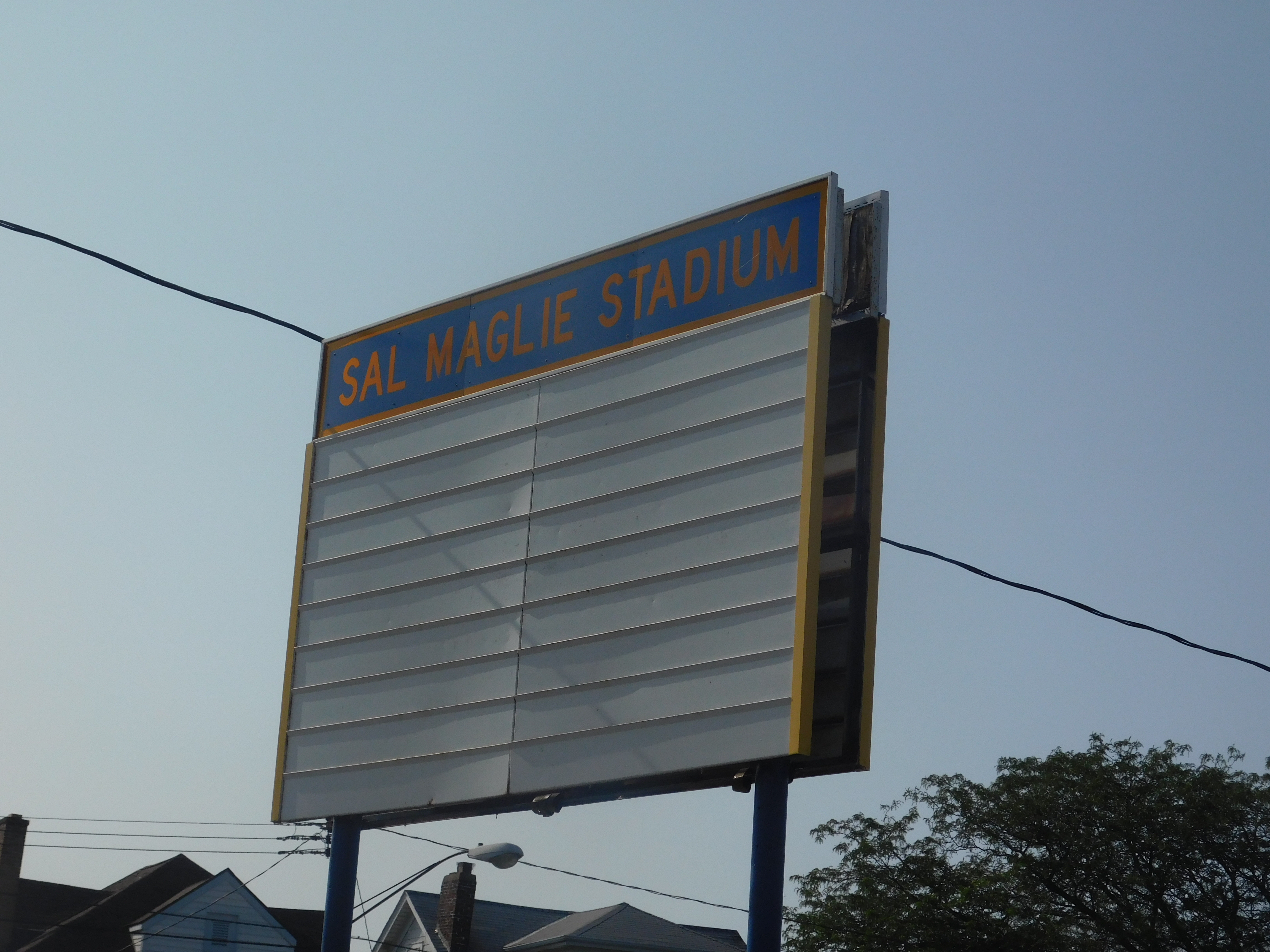 Sal Maglie Stadium signage in Niagara Falls, New York.